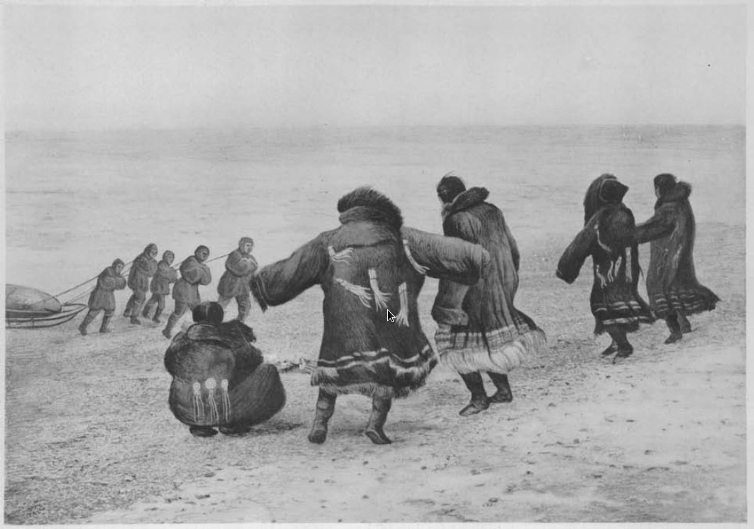 Koryak men at the ceremony of welcoming a whale.